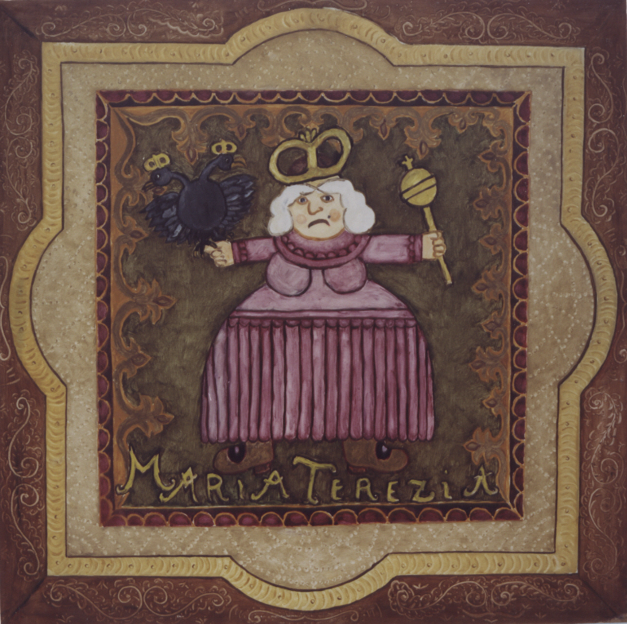 Zoltan Joo (1956-): The aunt Terus; 60 x 60 cm painting, oil, on fibre-board